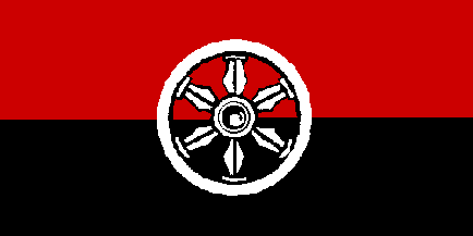 flag of the city of Kuldīga, Latvia.